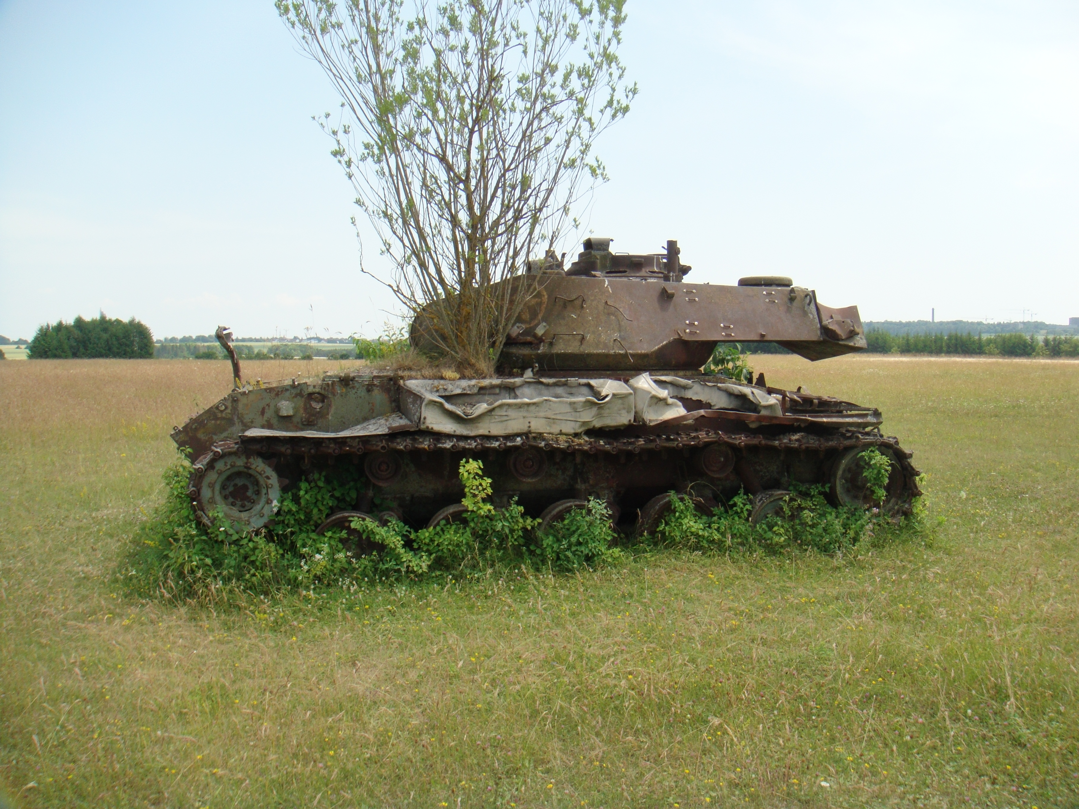 An M41 Walker Bulldog tank used as a target at the Lerchenfeld military training area, Rommel Barracks, Dornstadt, Baden-Württemberg, Germany.